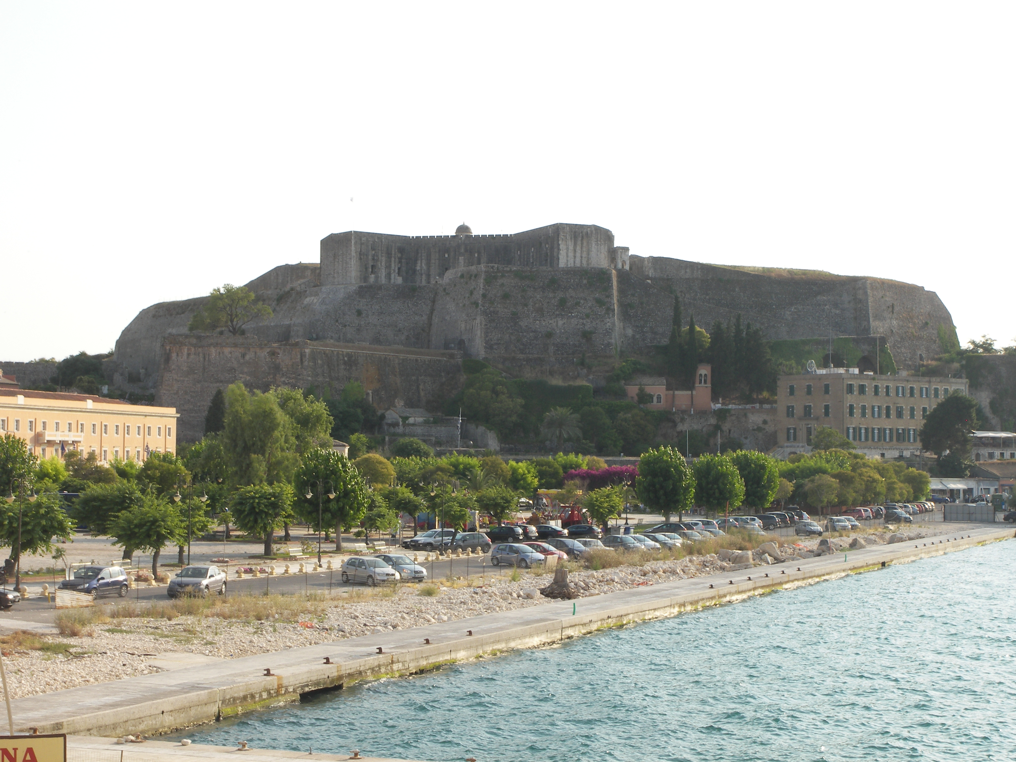 Neo Frourio by the sea